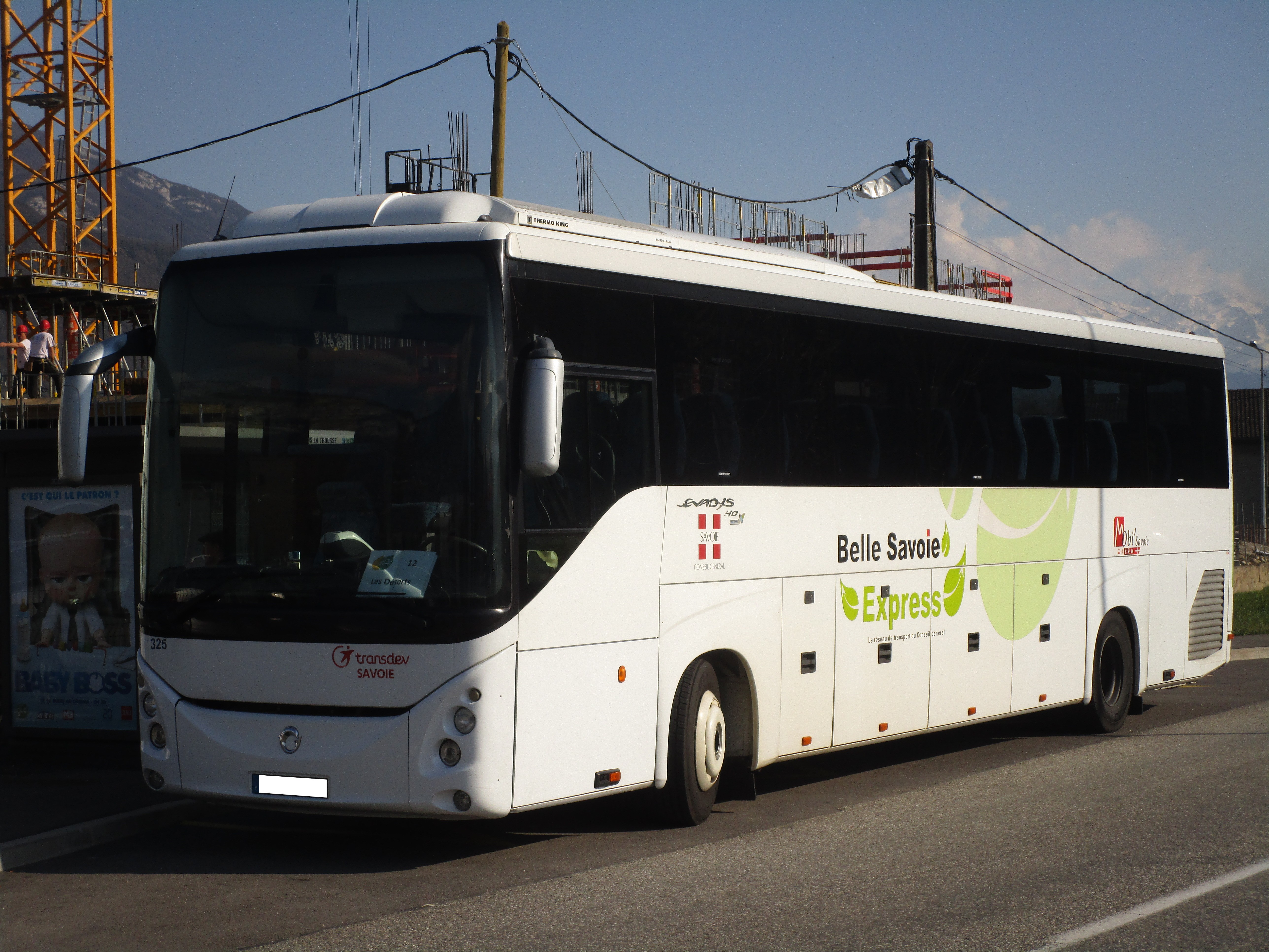 The bus Renault Iliade n°325 of Transdev Savoie, on the line 12 of the Stac (Parc relais La Trousse, La Ravoire↔Les Déserts Chef-Lieu, Les Déserts), at the call Parc relais La Trousse in La Ravoire on March 27, 2017.